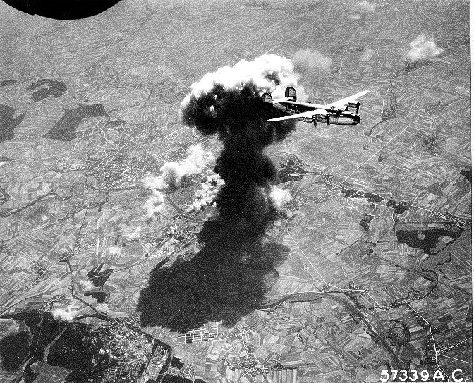 465th Bombardment Group B-24 Mission over Pardubice, Protectorate of Bohemia and Moravia, August 24, 1944